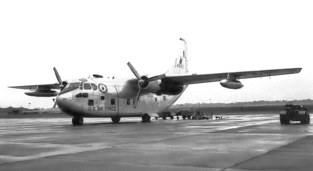 309th Troop Carrier Group Fairchild C-123B-2-FA Provider 54-555